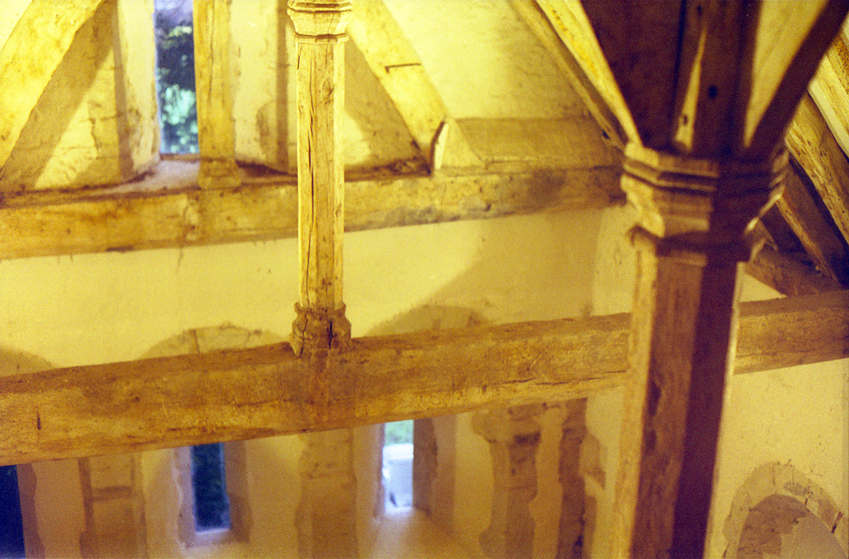 12th Century Beams in Harlowsbury Church, Harlow, England